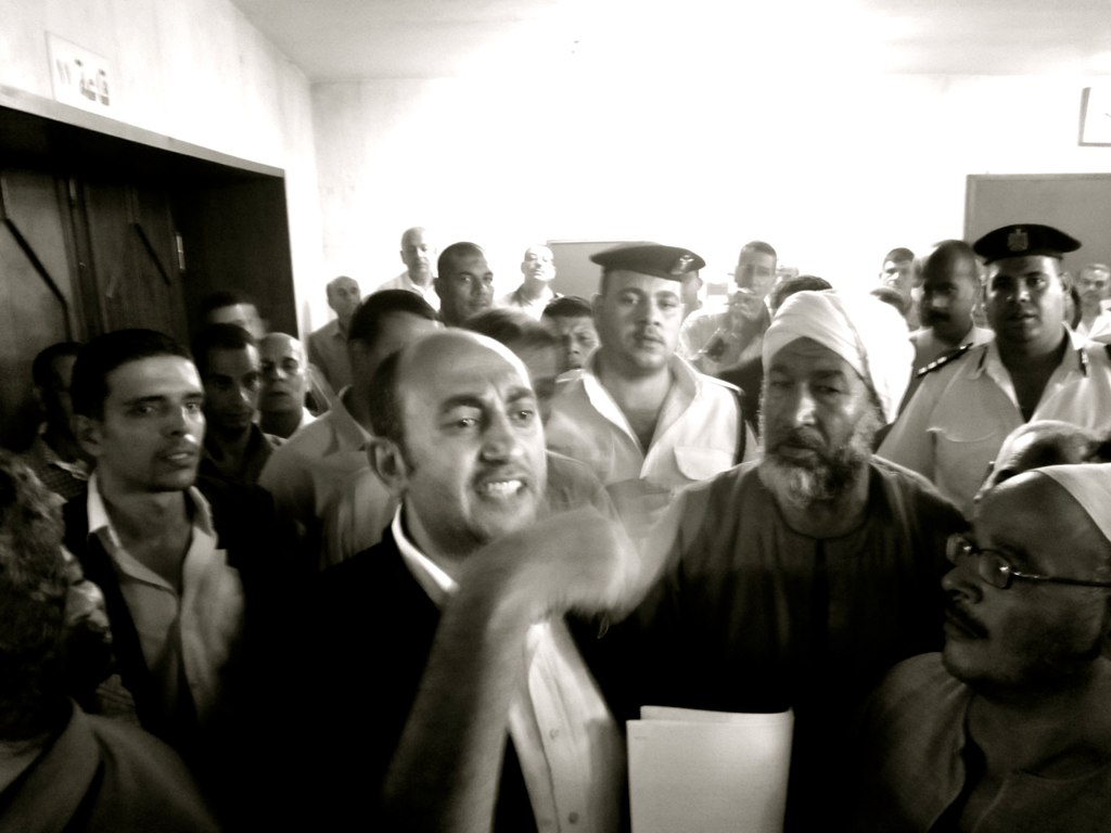 Khaled Ali with Egyptian workers protesting privatization, July 2011